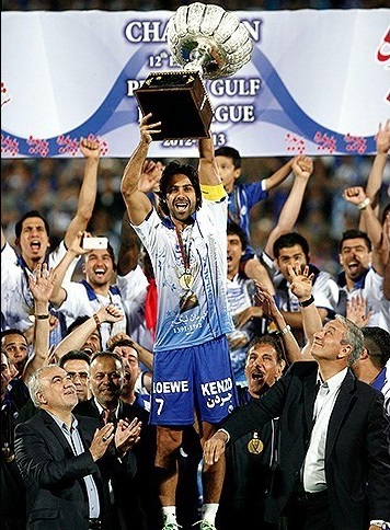 Farhad Majidi with IPL trophy